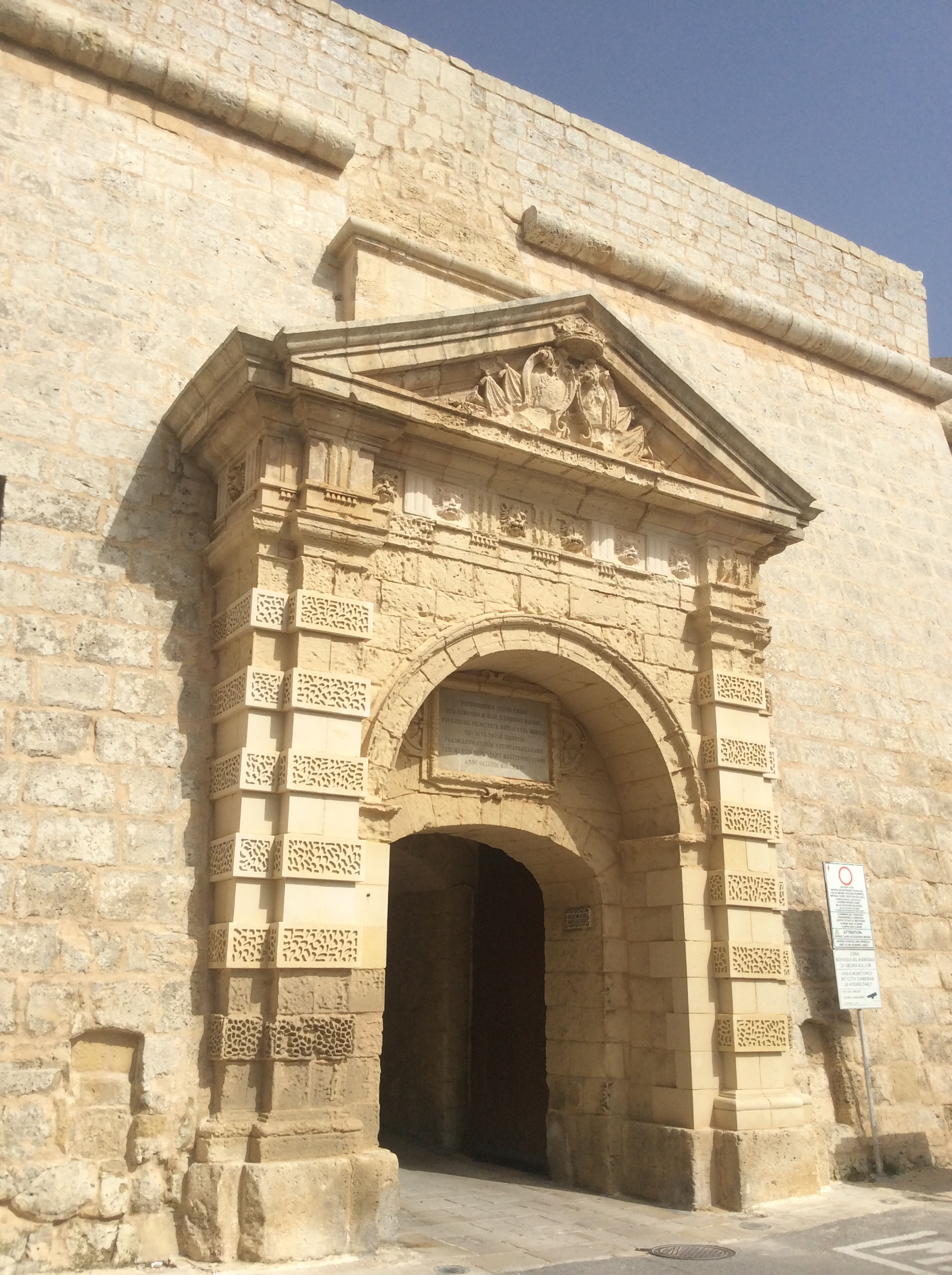 Greeks Gate This media is about Maltese cultural property with inventory number 01460.